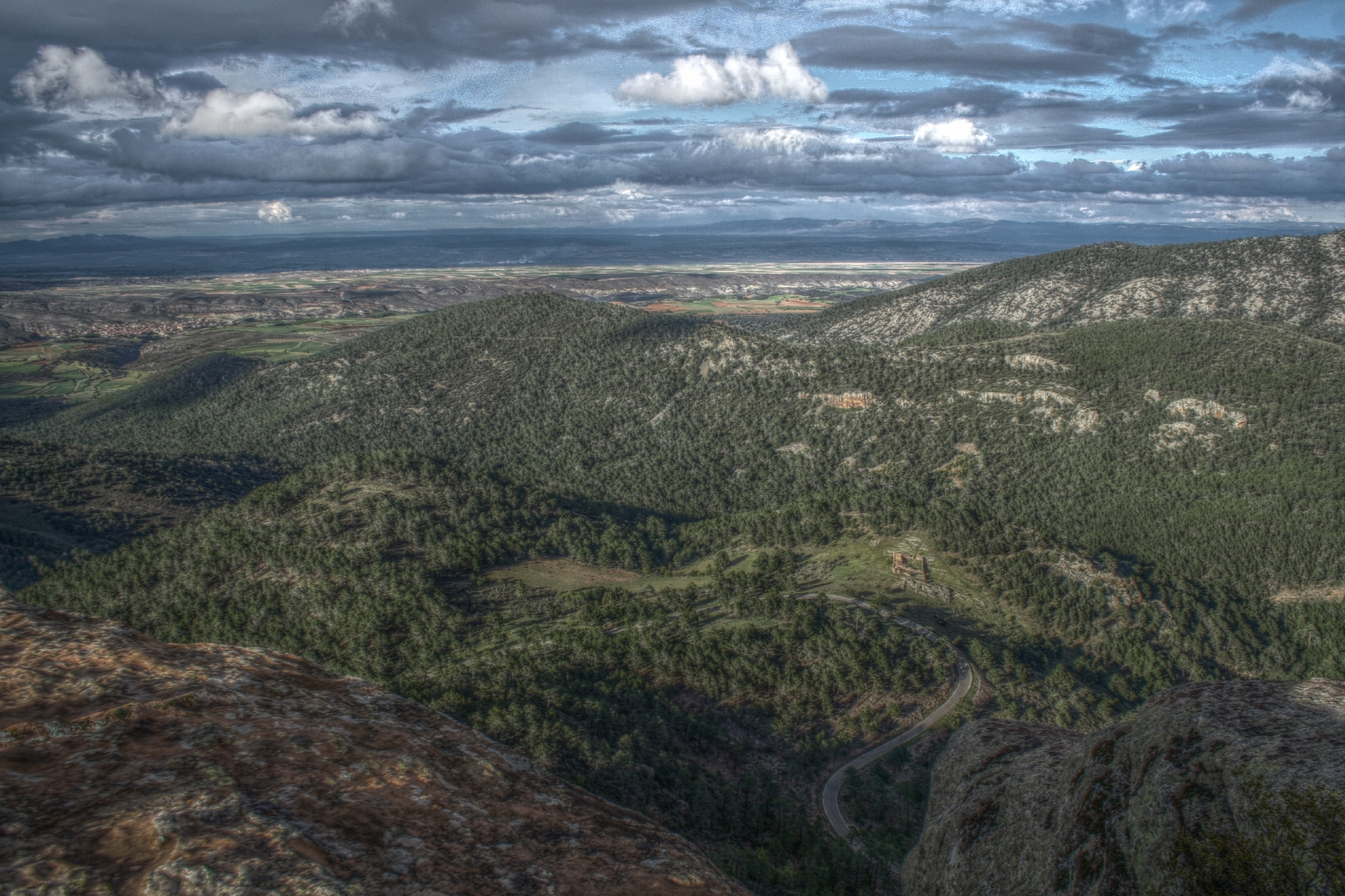 Qtpfsgui 1.9.3 tonemapping parameters: Operator: Mantiuk Parameters: Contrast Equalization factor: 0.1 Saturation Factor: 1.333 Detail Factor: 1 PreGamma: 1